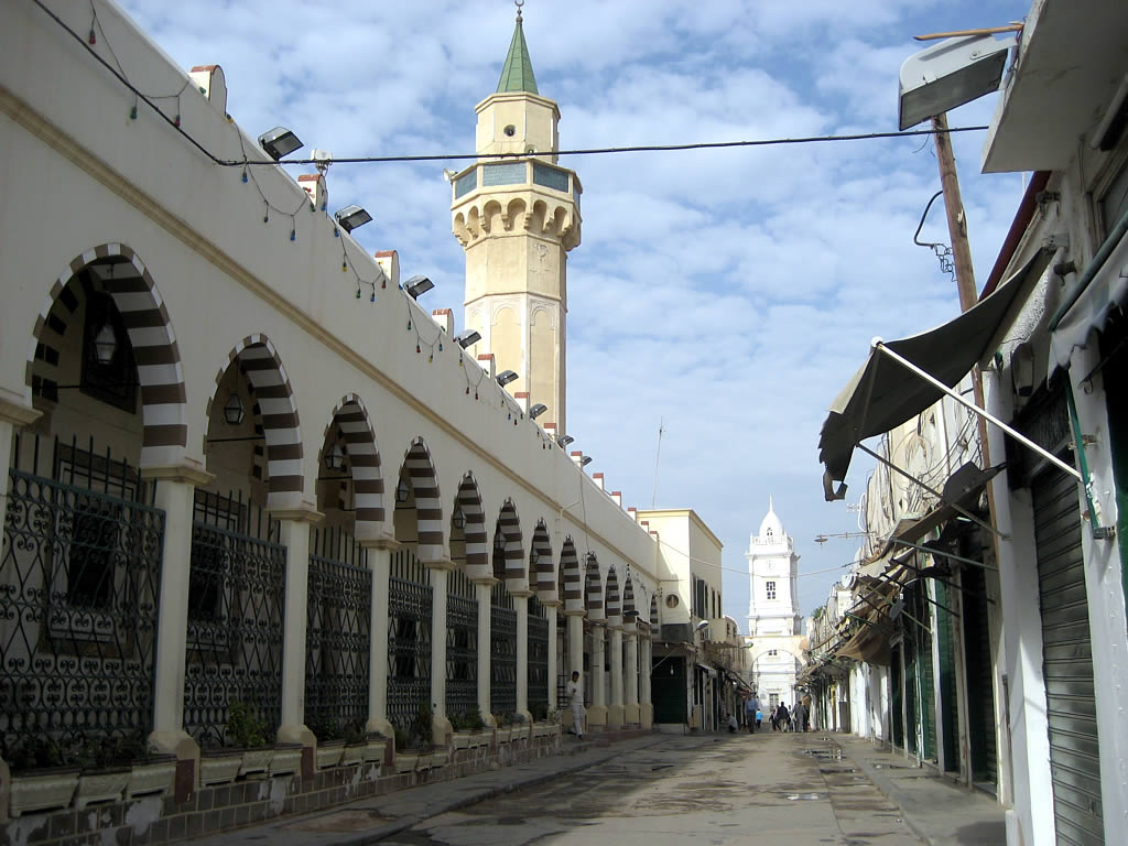 The Ahmed Pasha Karamanli Mosque is just off the souk in Tripoli.